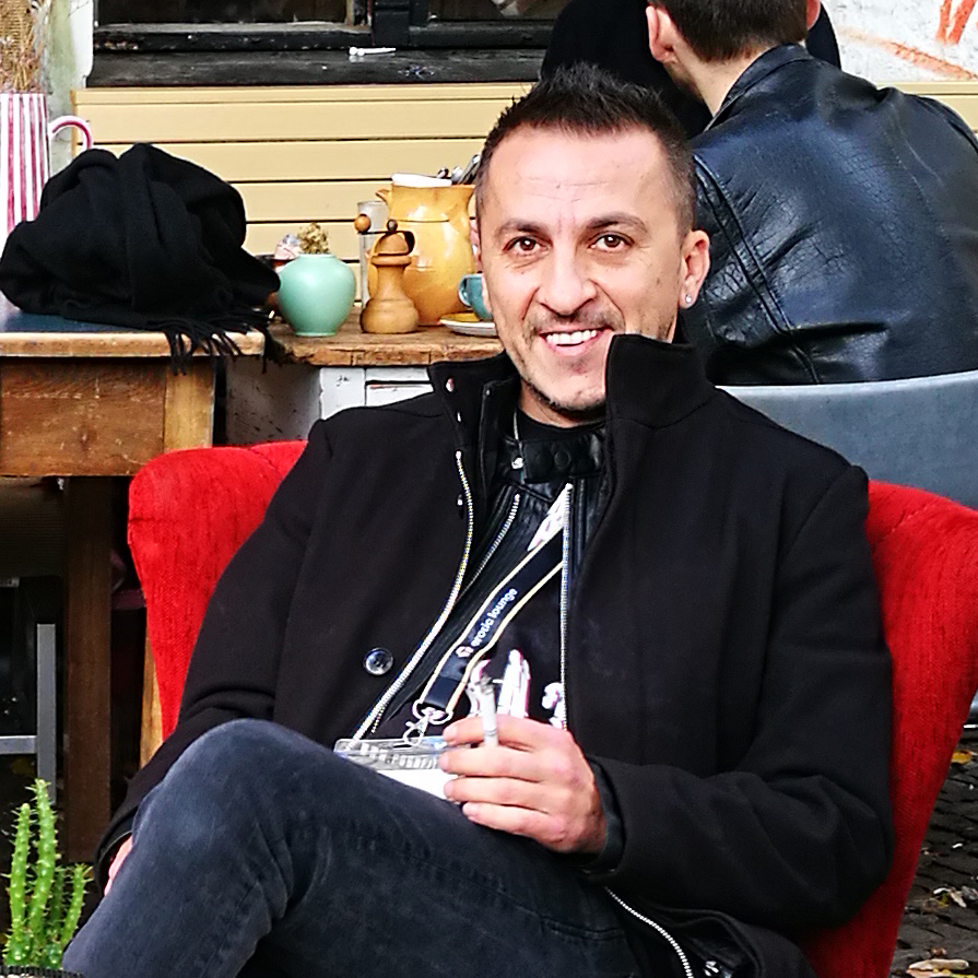 Yavuz Kurtulmus, 2019